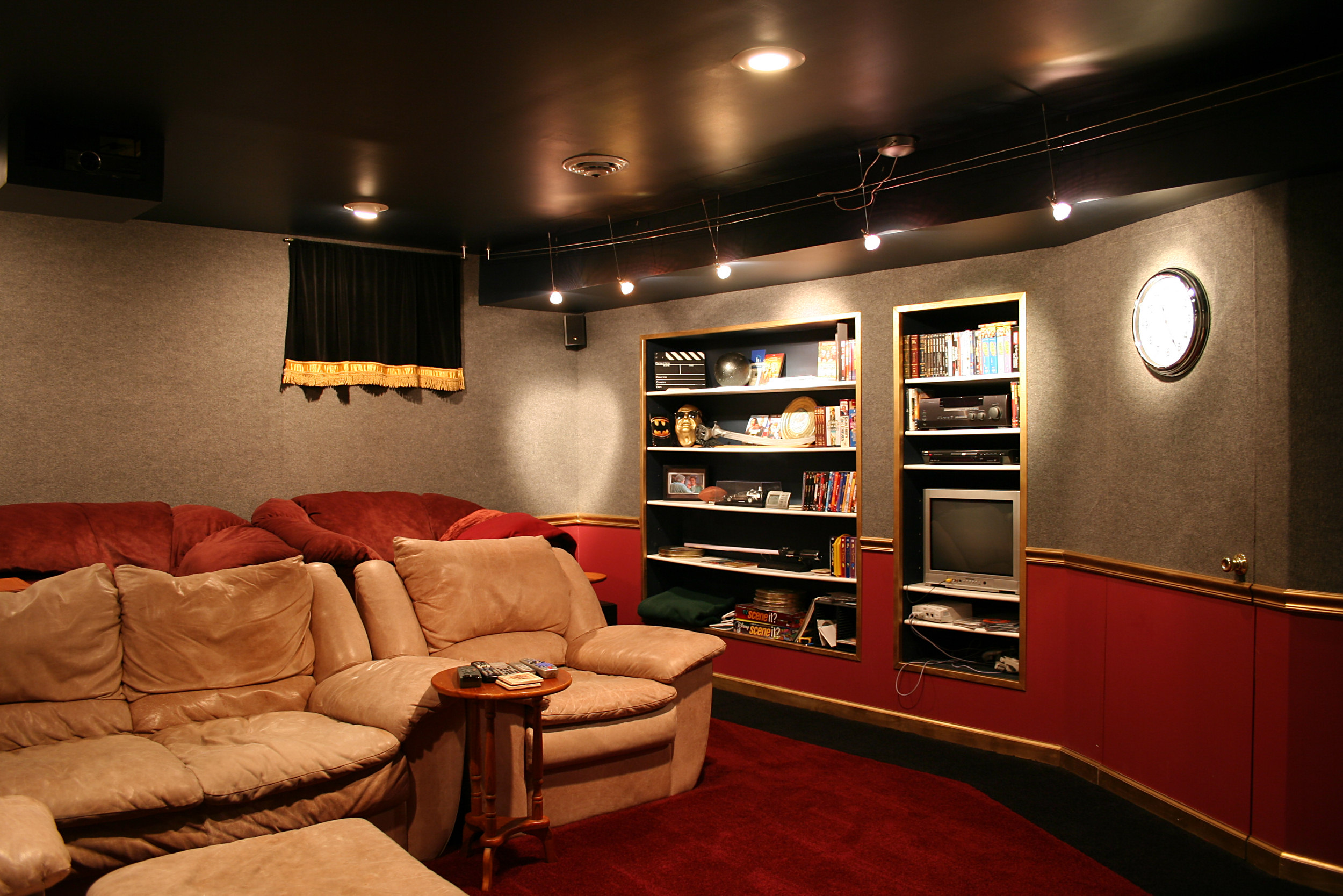 Home theater with built-in shelving. Note the component stack on the right, which includes (top to bottom) an audio receiver, DVD player, television used as a secondary monitor, and Sega Dreamcast. The disguised door on the far right leads to a utility room and also allows access to the wiring behind the component stack.